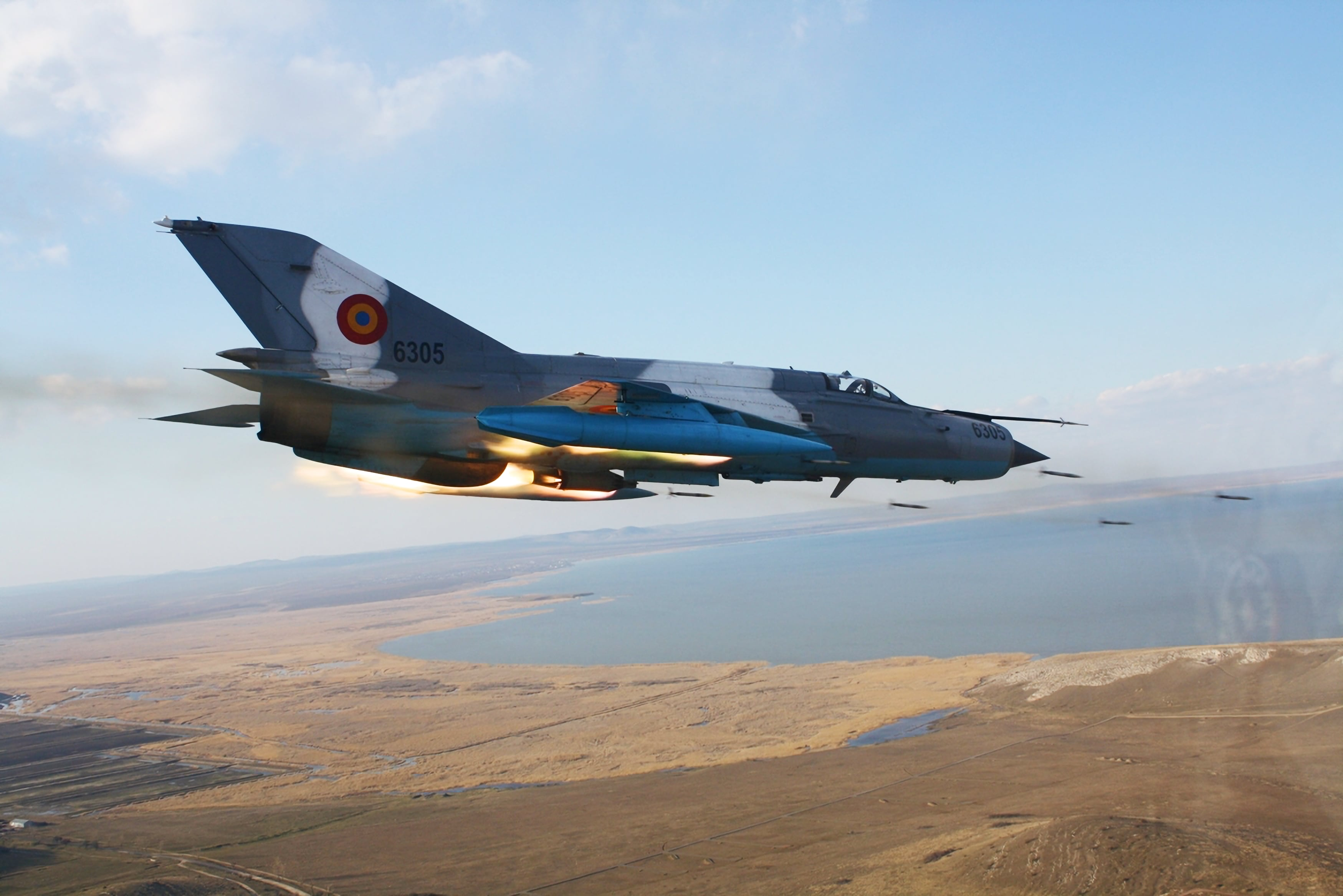 A Romanian MiG-21 Lancer C firing S-5 rockets during a training exercise.